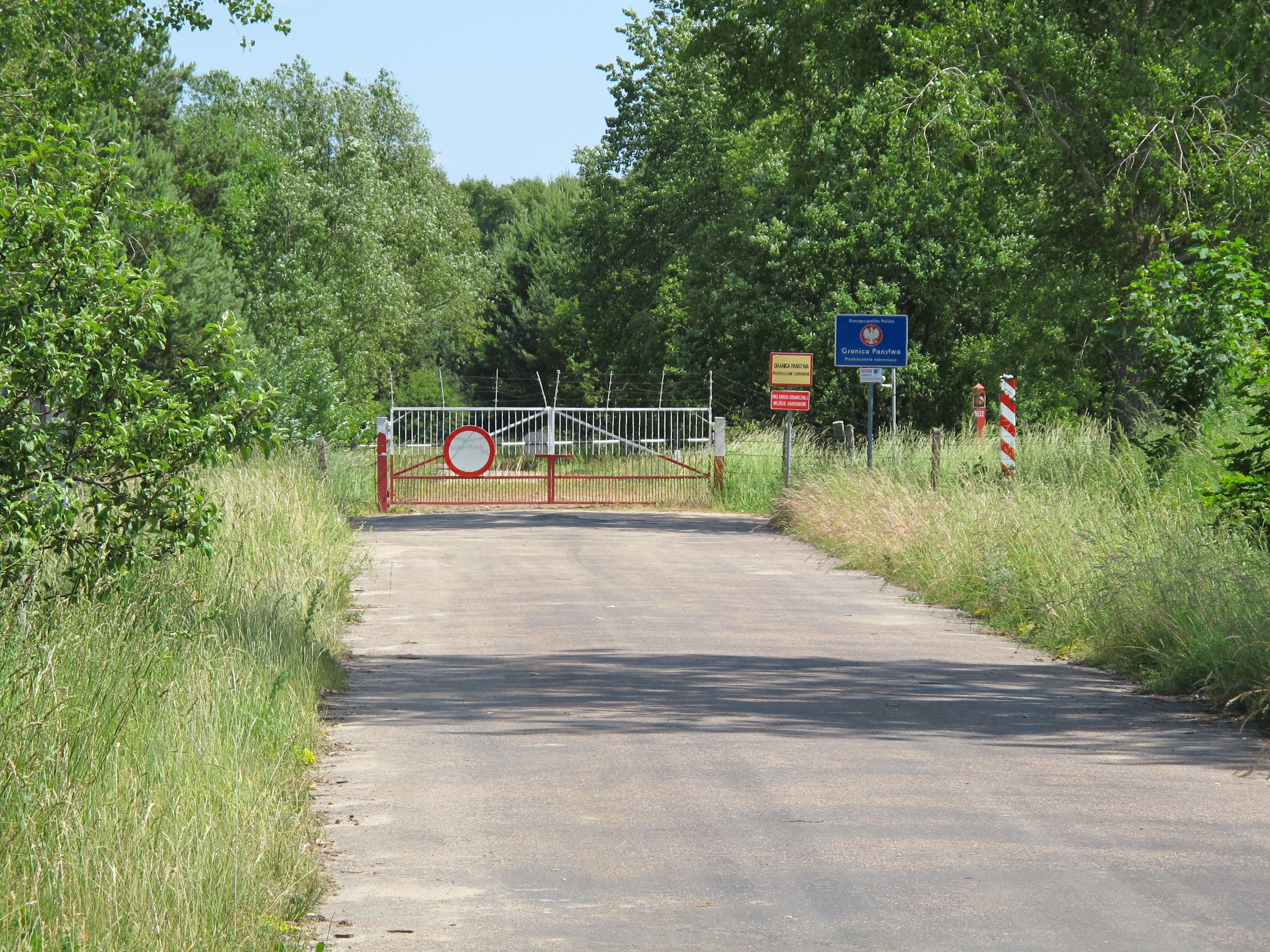 Polish-Belarusian border near Krynki city, gmina Krynki, podlaskie, Poland